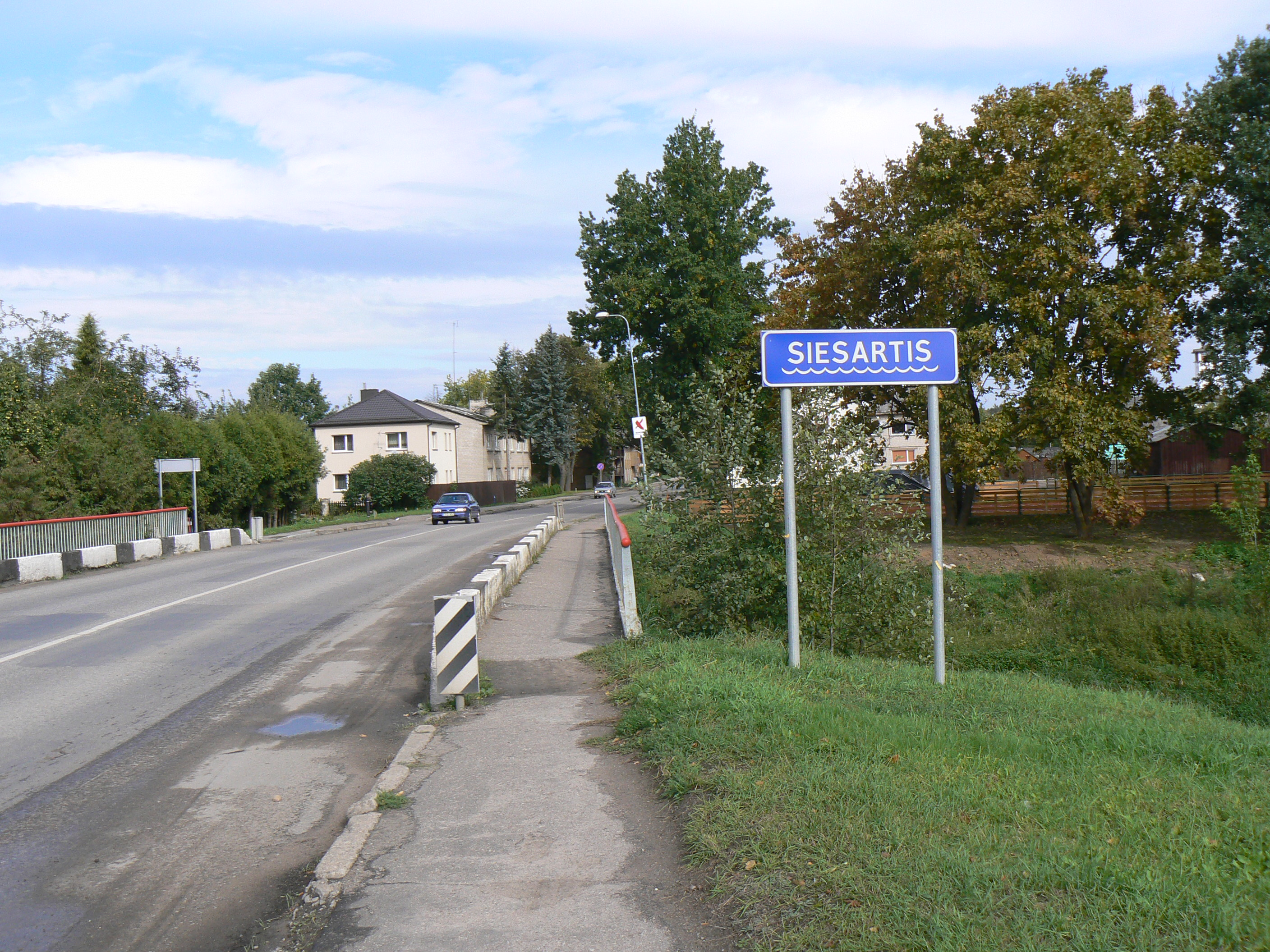 Siesartis in Šakiai